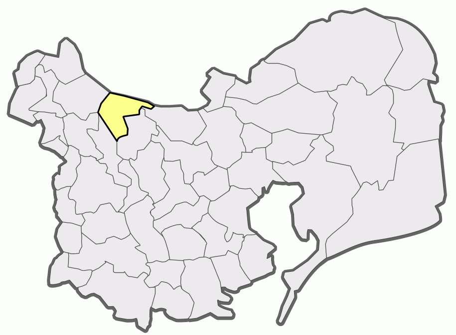 Made by Bogdan Giuşcă, 2006, in XaraX. I can't upload the SVG because there's not Xara to SVG converter, yet. I'll upload it as soon as it will be ready (the Xara guys are working at it).